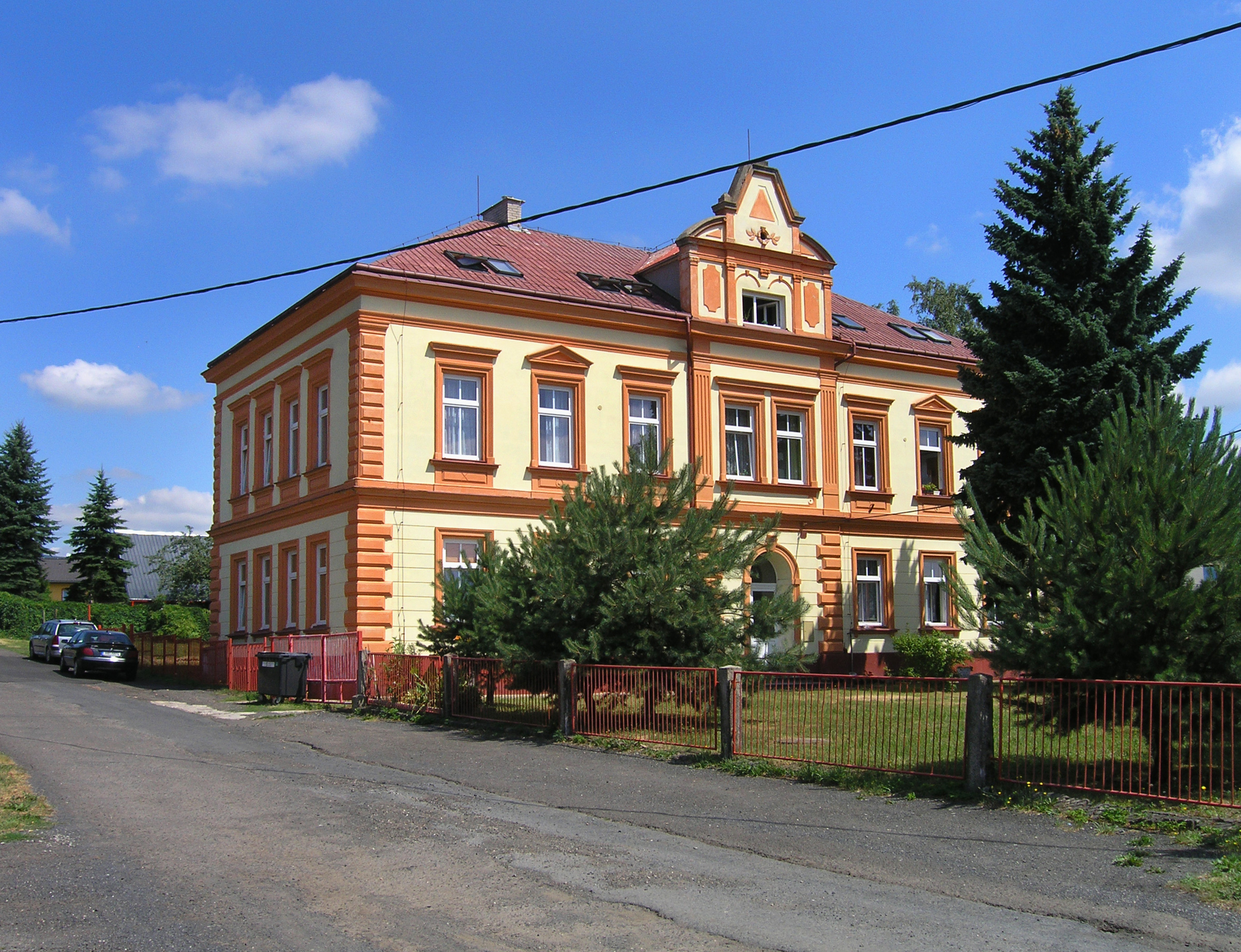 Old school building in Háj u Duchcova, Czech Republic